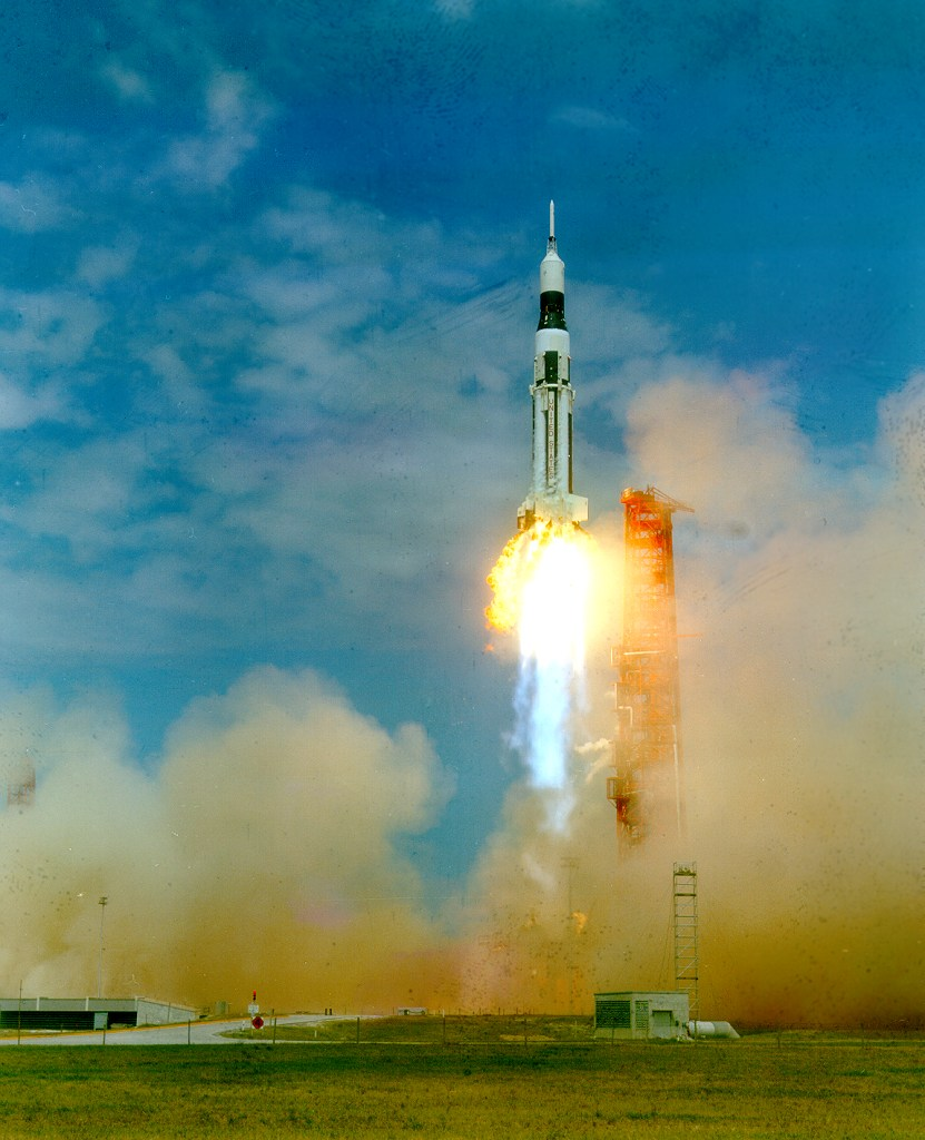 Liftoff of unmanned Saturn I mission SA-7